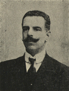 Republican member of the Portuguese 1911 Constituent Assembly.